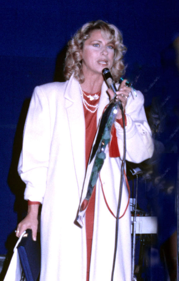 photo by the author Indeciso42